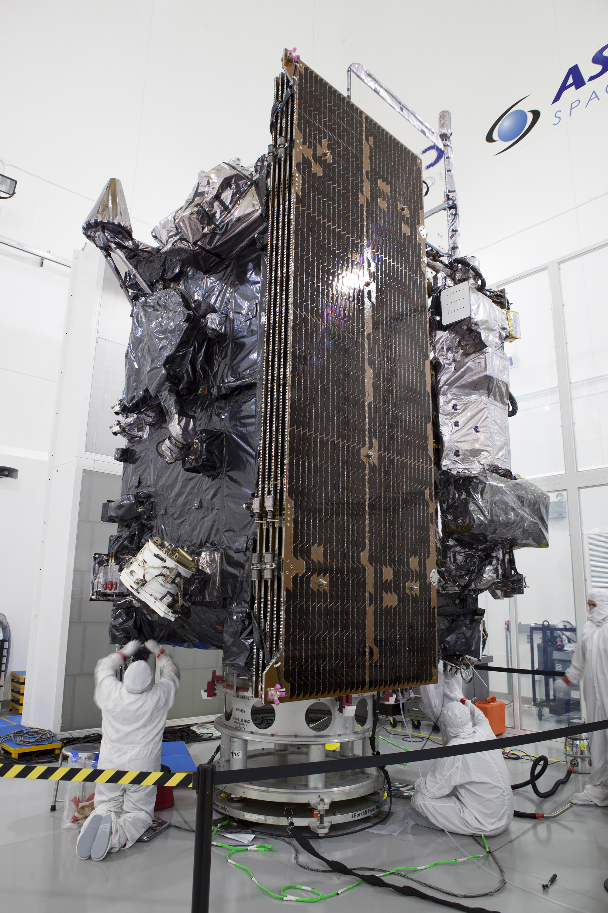 The Geostationary Operational Environmental Satellite (GOES-R) is undergoing final launch preparations prior to fueling inside the Astrotech payload processing facility in Titusville, Florida near NASA's Kennedy Space Center. GOES-R will be the first satellite in a series of next-generation NOAA GOES Satellites. The spacecraft is to launch aboard a United Launch Alliance Atlas V rocket in November.